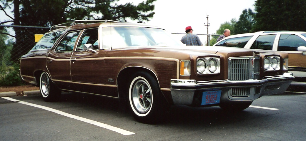 1972 Pontiac Grand Safari station wagon I photographed in Charlotte, North Carolina in June 1999.